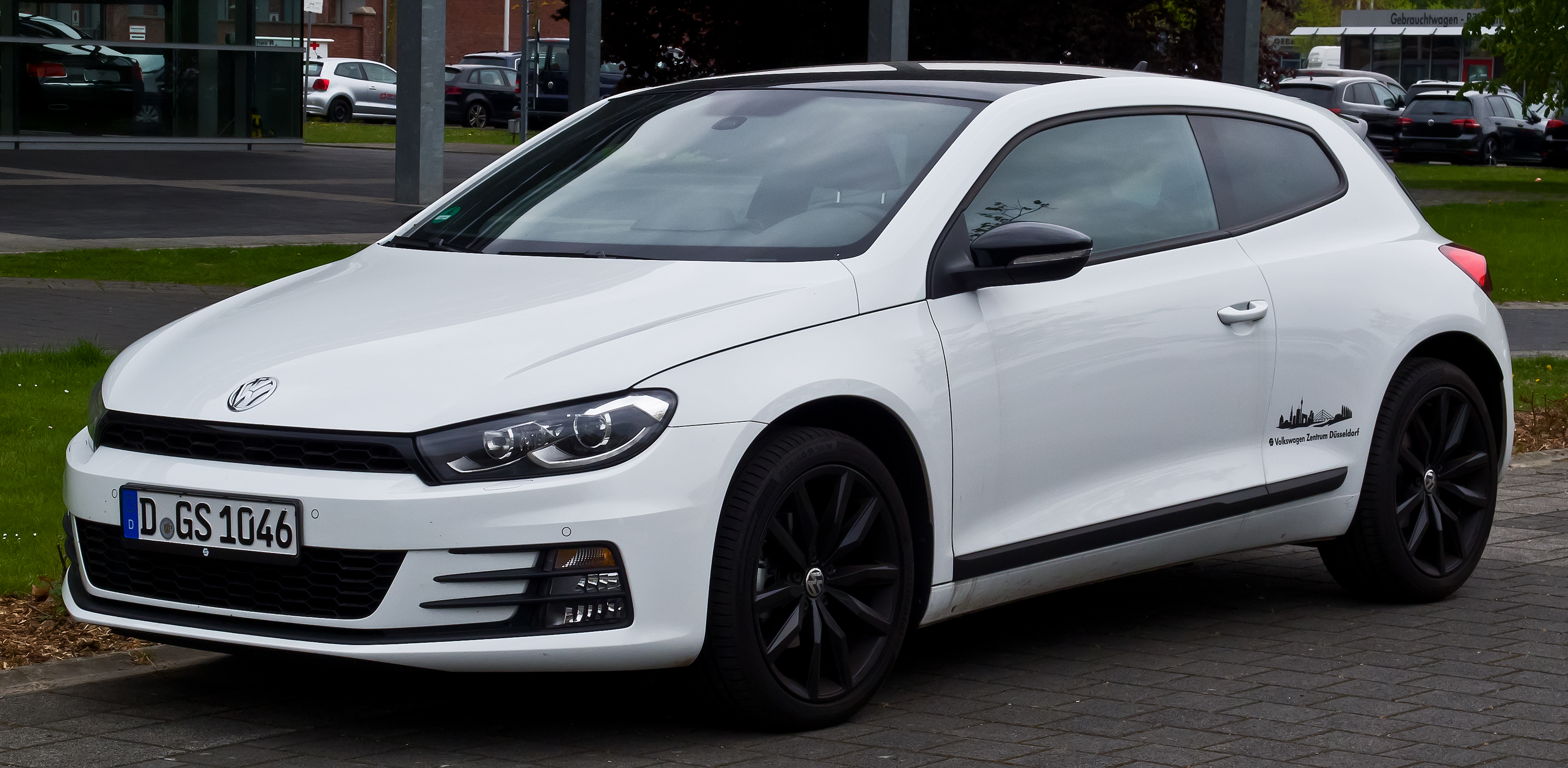 VW Scirocco 1.4 TSI BlueMotion Technology Sport (III, Facelift)